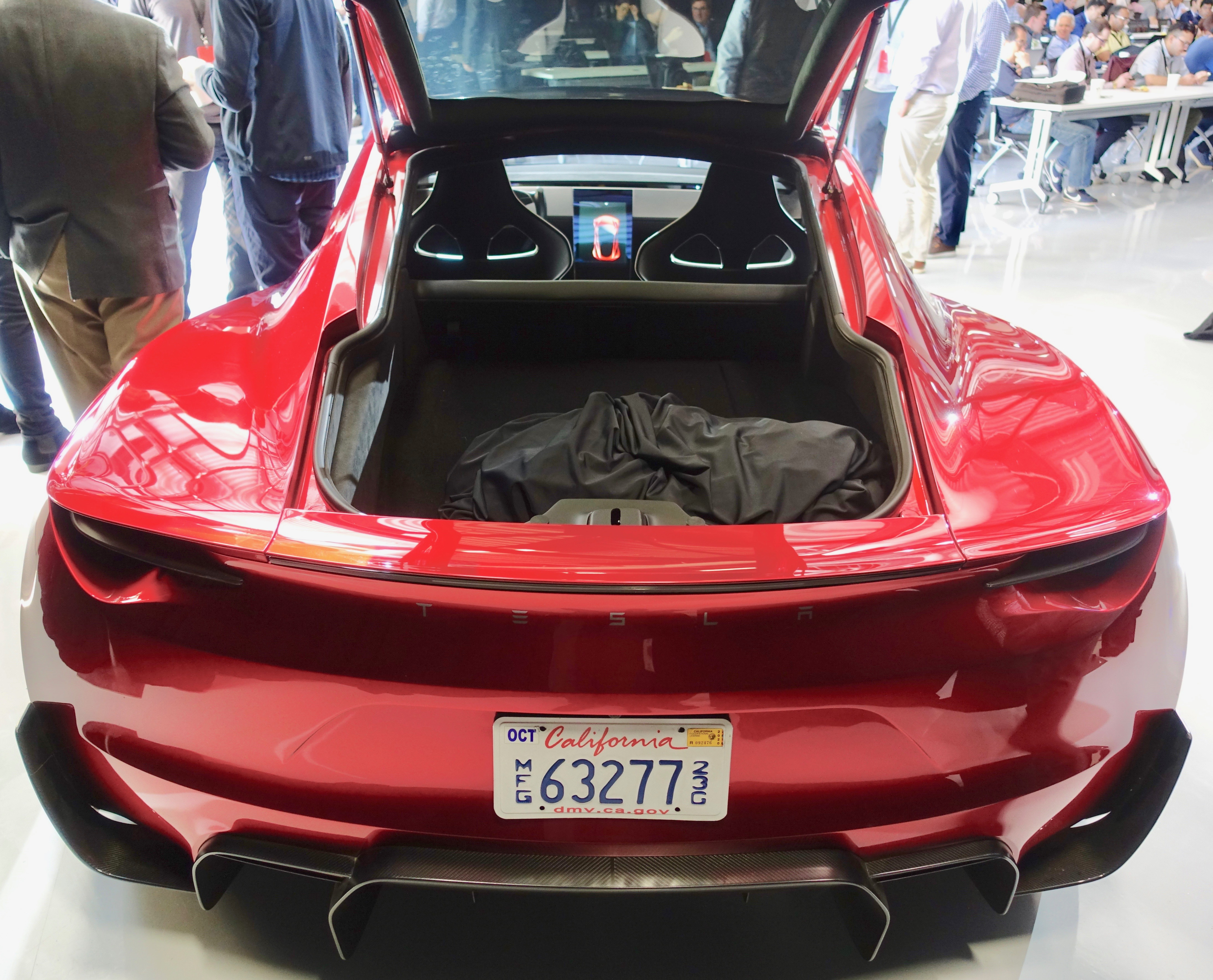 at Tesla HQ today